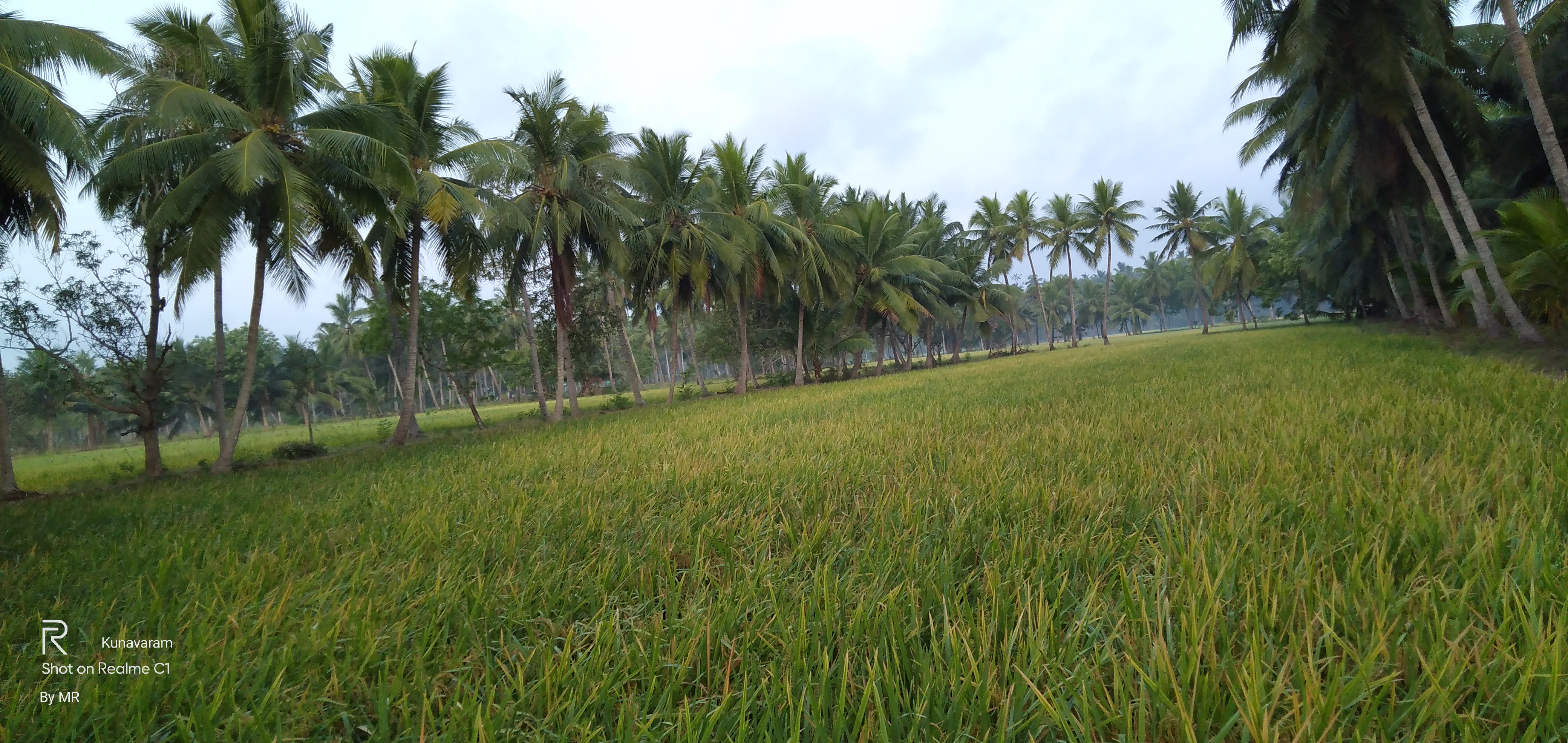 Coconut Trees